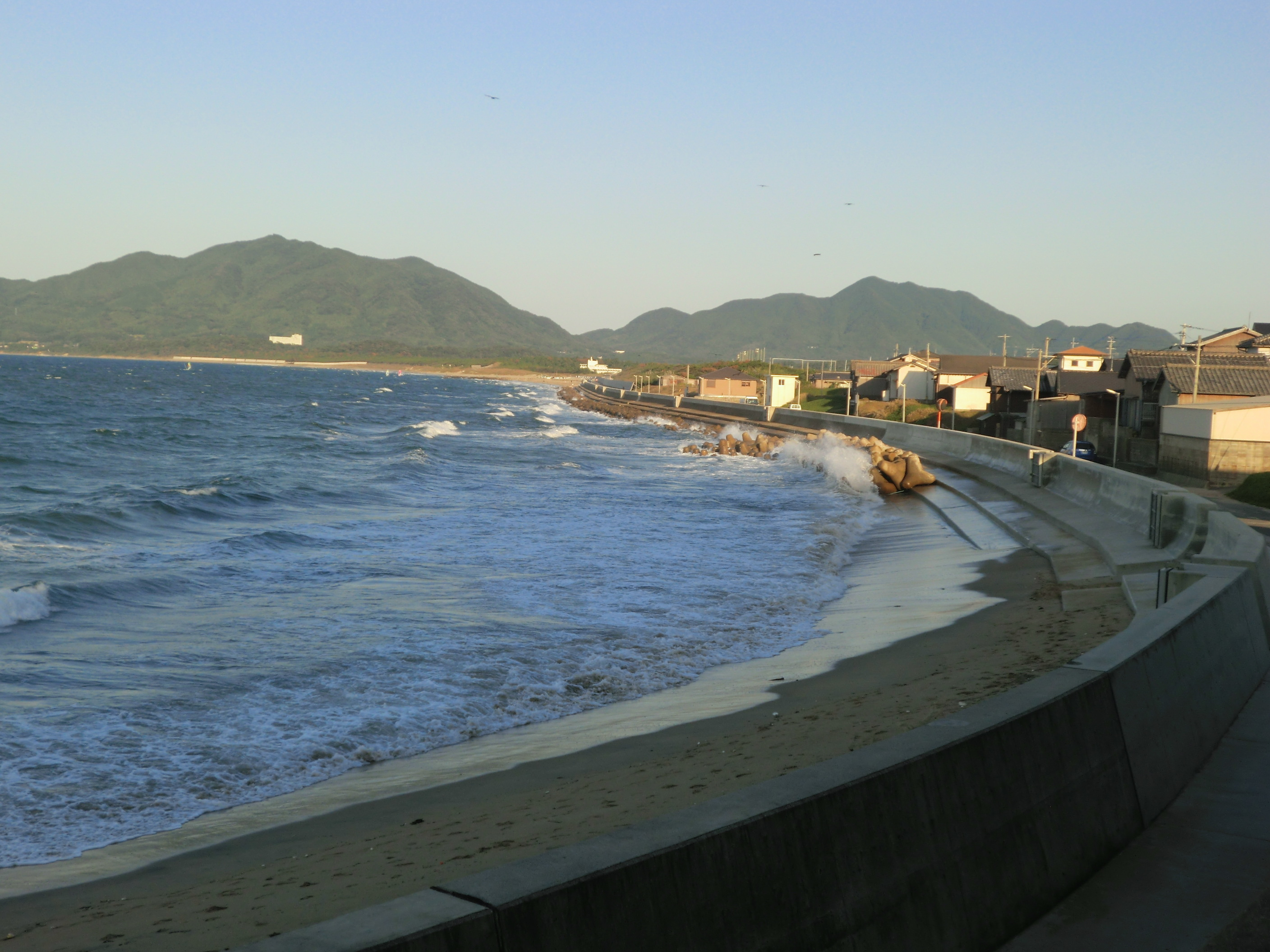 Townscape of Ko-no-minato area at Munakata, Fukuoka, Japan.